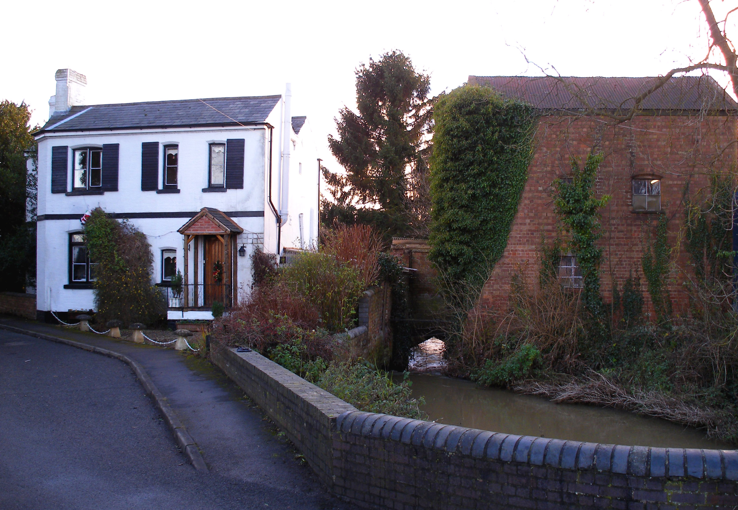 The mill and millhouse at Eathorpe, Warks